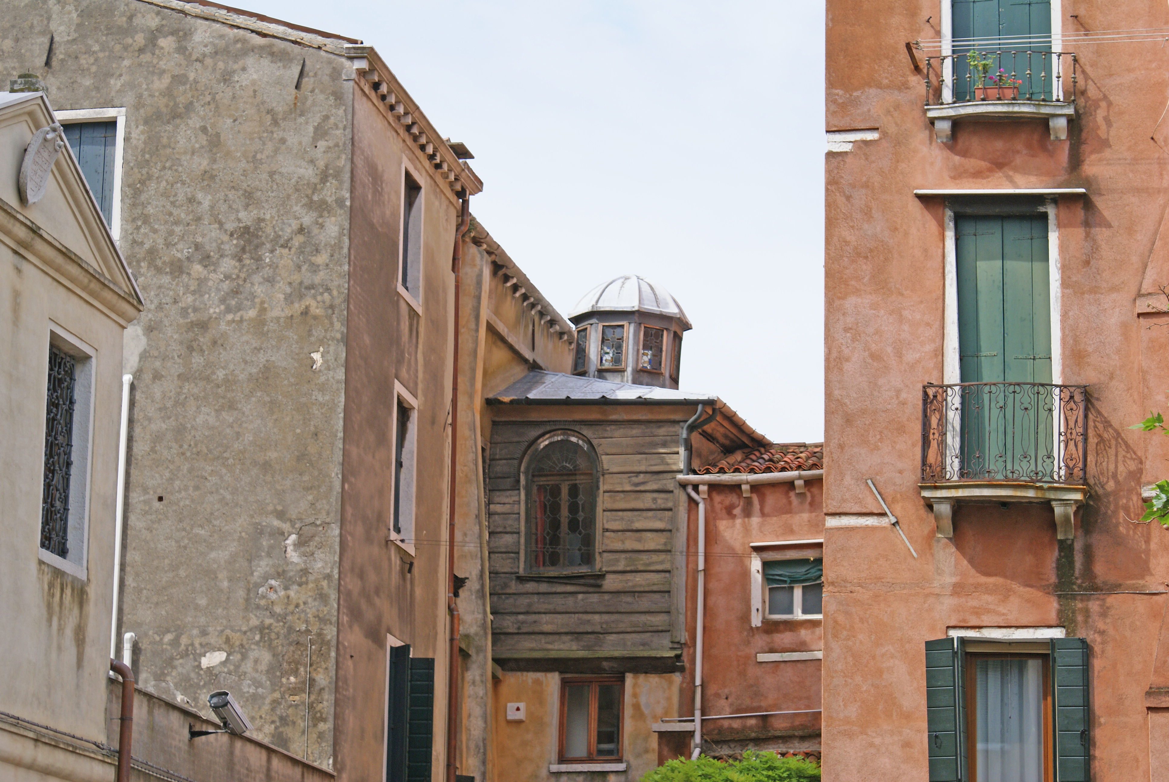 Peculiarity of the Schola Canton - Ghetto Nuovo - Venezia